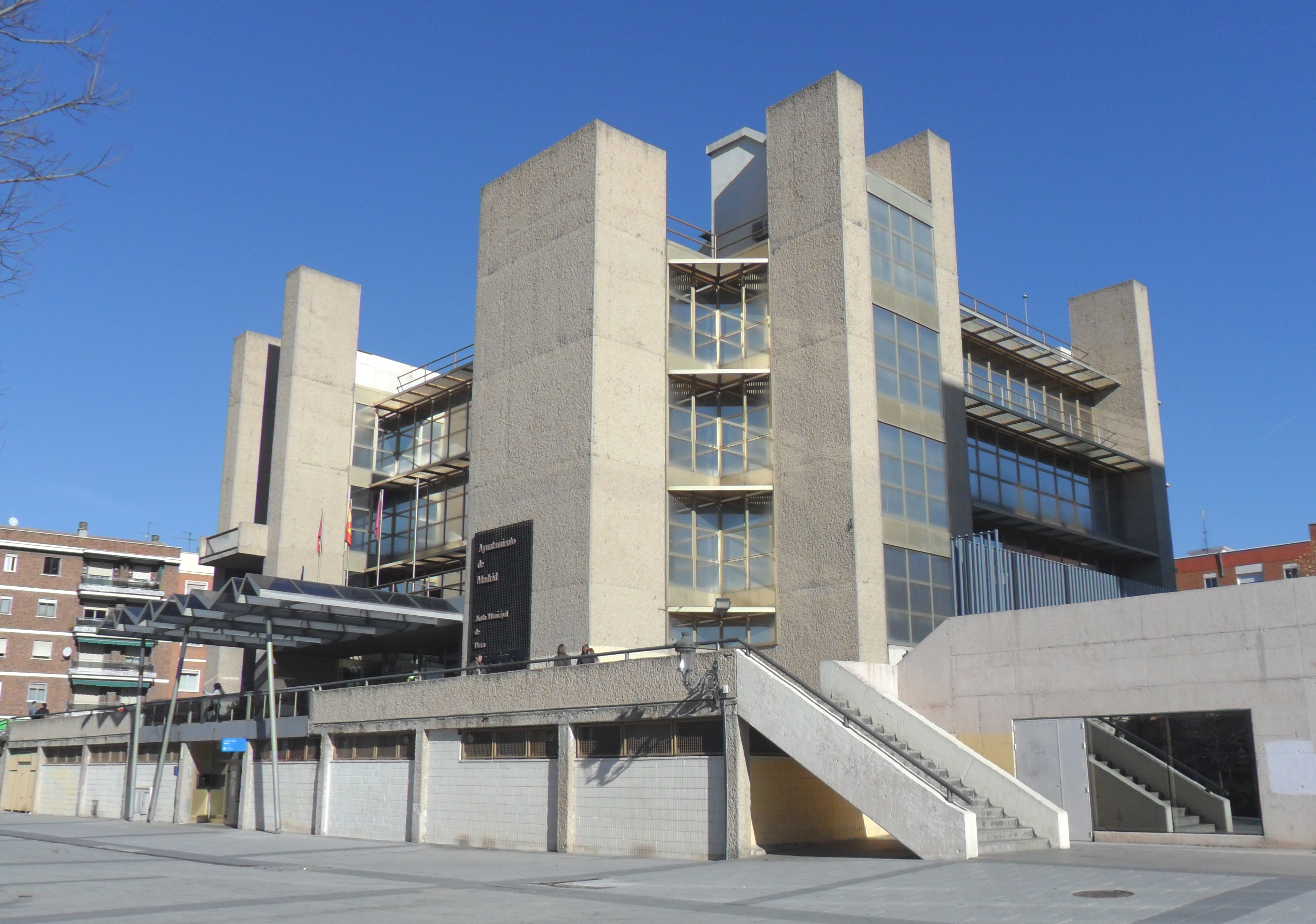 View of Usera District Hall in Madrid (Spain), at 41st Avenida de Rafaela Ybarra (street).